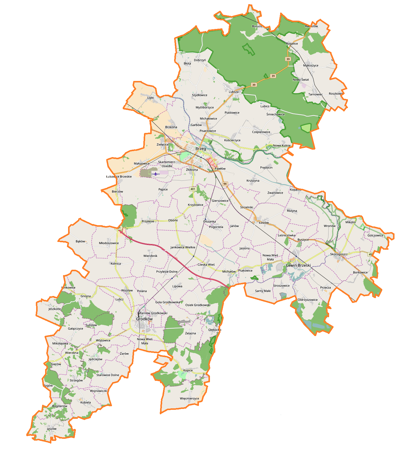 Location map